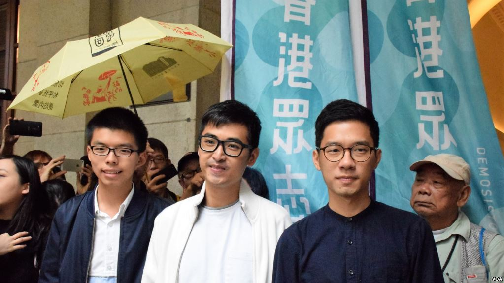 香港雨傘運動學生領袖黃之鋒、周永康及羅冠聰